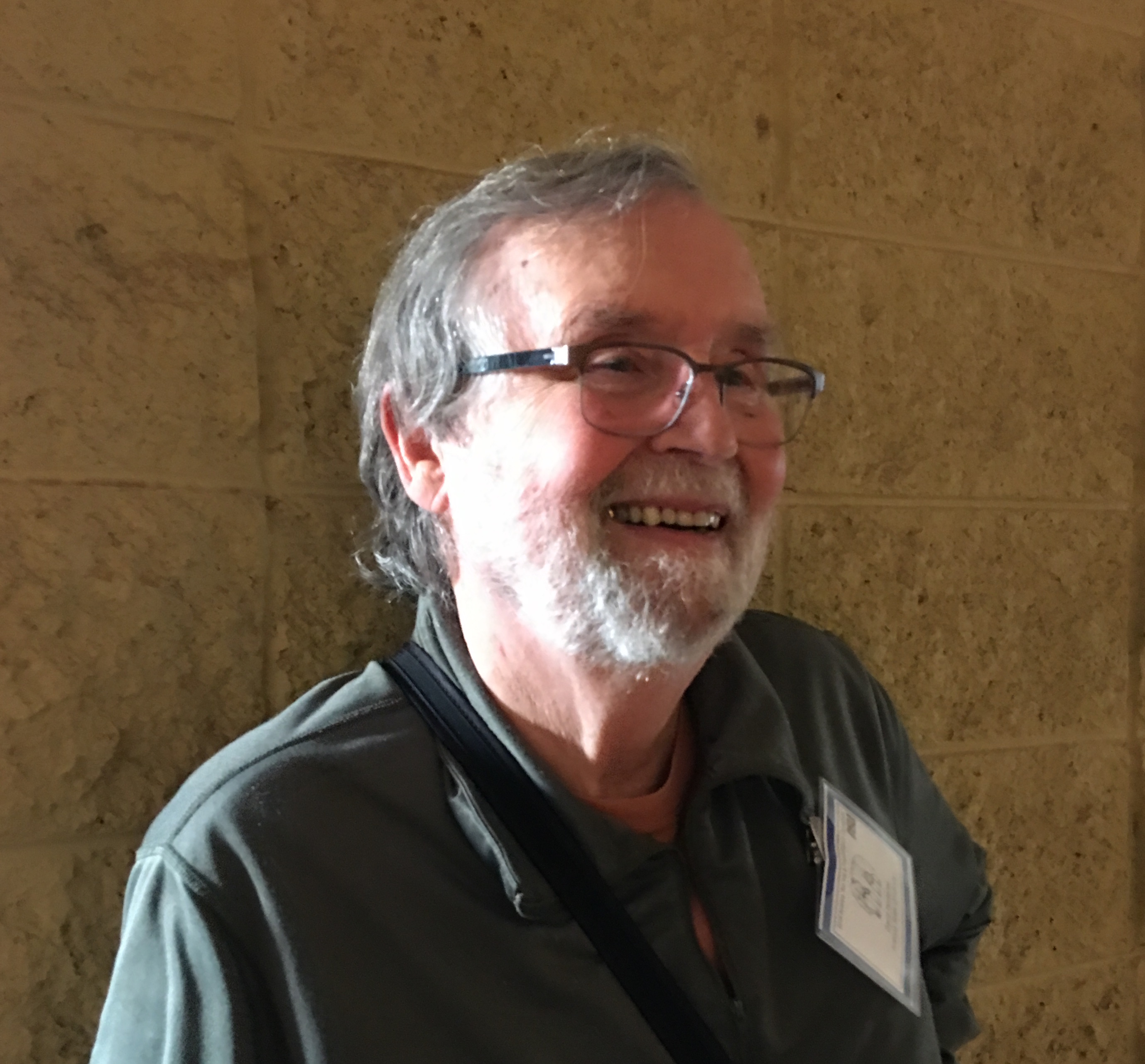 David Hestenes, ASU physicist and education theorist, photographed March 2019 at ASU SciAPP conference (SciAPP = Science, Arts, Possibilities in Perception)